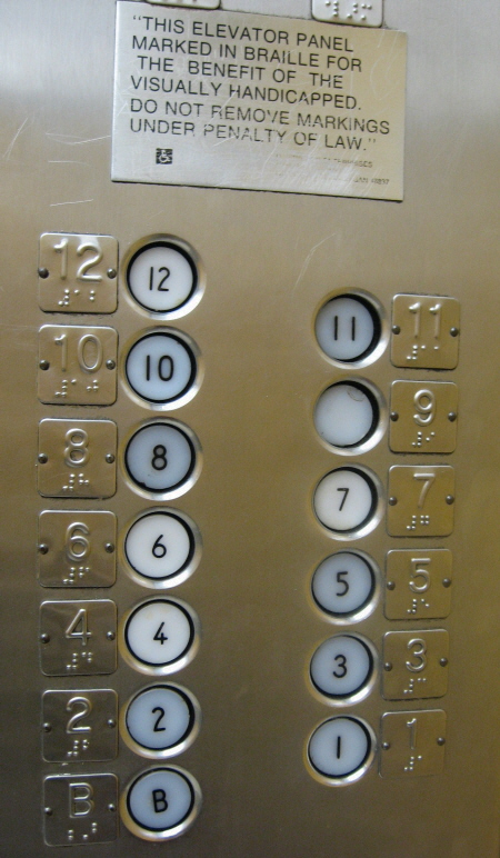 Elevator panel with Braille numbers, Los Angeles, California.